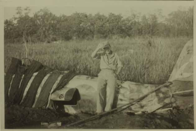 PictionID:6485513 - Catalog:01_00086164 - Title:Nakajima, Ki-43, Hayabusa 'Peregrine Falcon' Oscar 'Jim' Army Type 1 Fighter - Filename:01_00086164.TIF - Image from the Charles Daniels Photo Collection album "Seversky, Republic and P-47"----PLEASE TAG this image with any information you know about it, so that we can permanently store this data with the original image file in our Digital Asset Management System.----SOURCE INSTITUTION: San Diego Air and Space Museum Archive